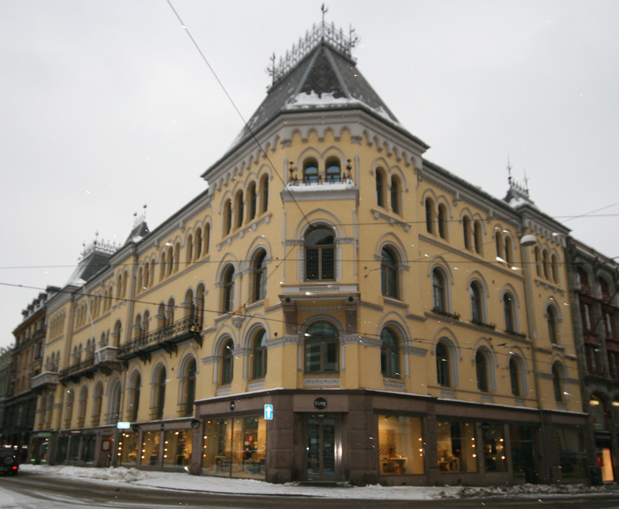 Akersgata 18 in Oslo, Norway. Originally house of the Athenæum social club. Still some of these functions, but now also offices. Architects: Paul Due and Bernhard Steckmest.